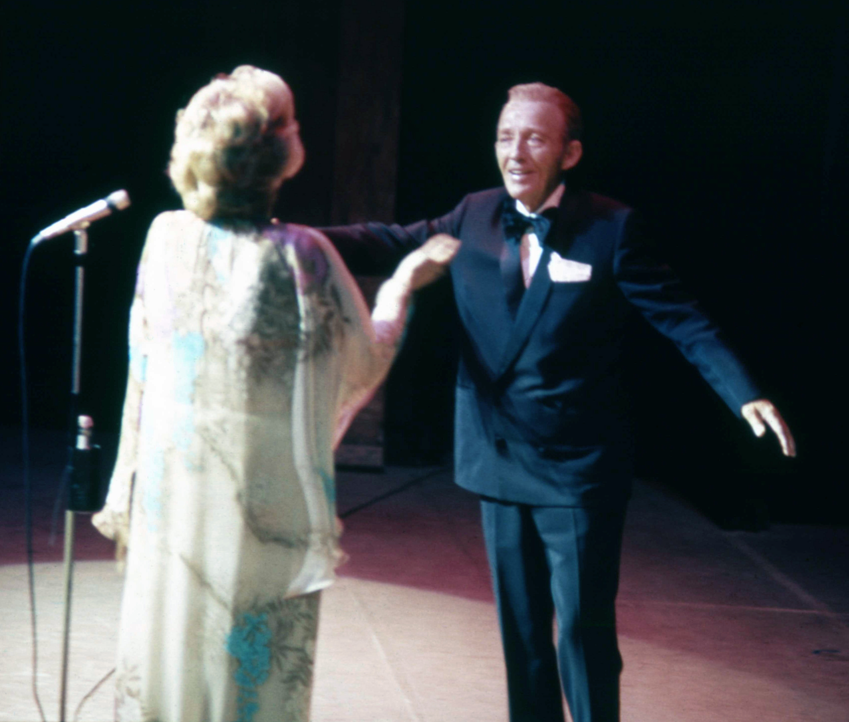 Bing Crosby with Rosemary Clooney